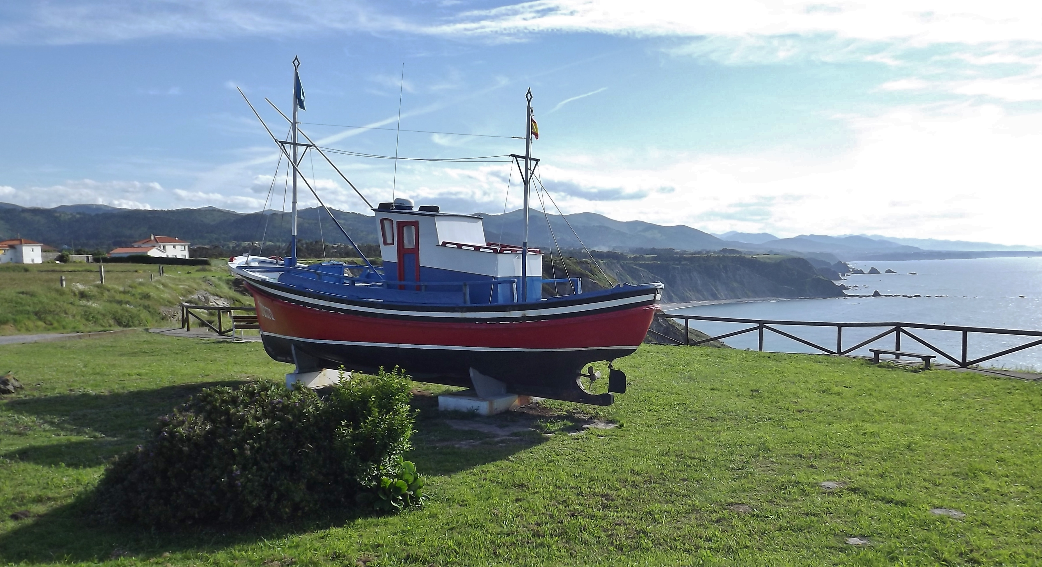 Cabo Vidio.